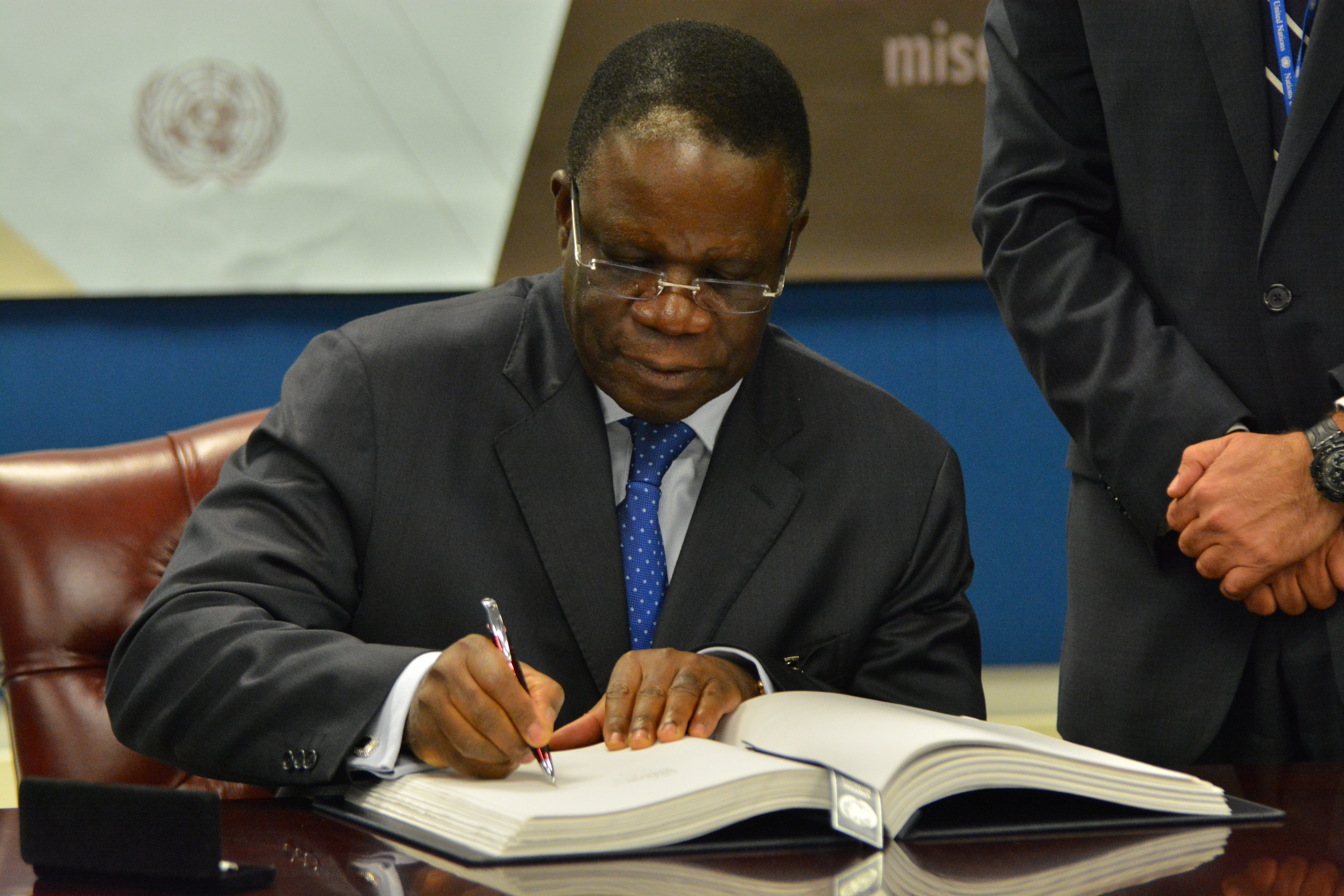 Minister of Foreign Affairs of the Republic of Congo, Basile Ikouebe